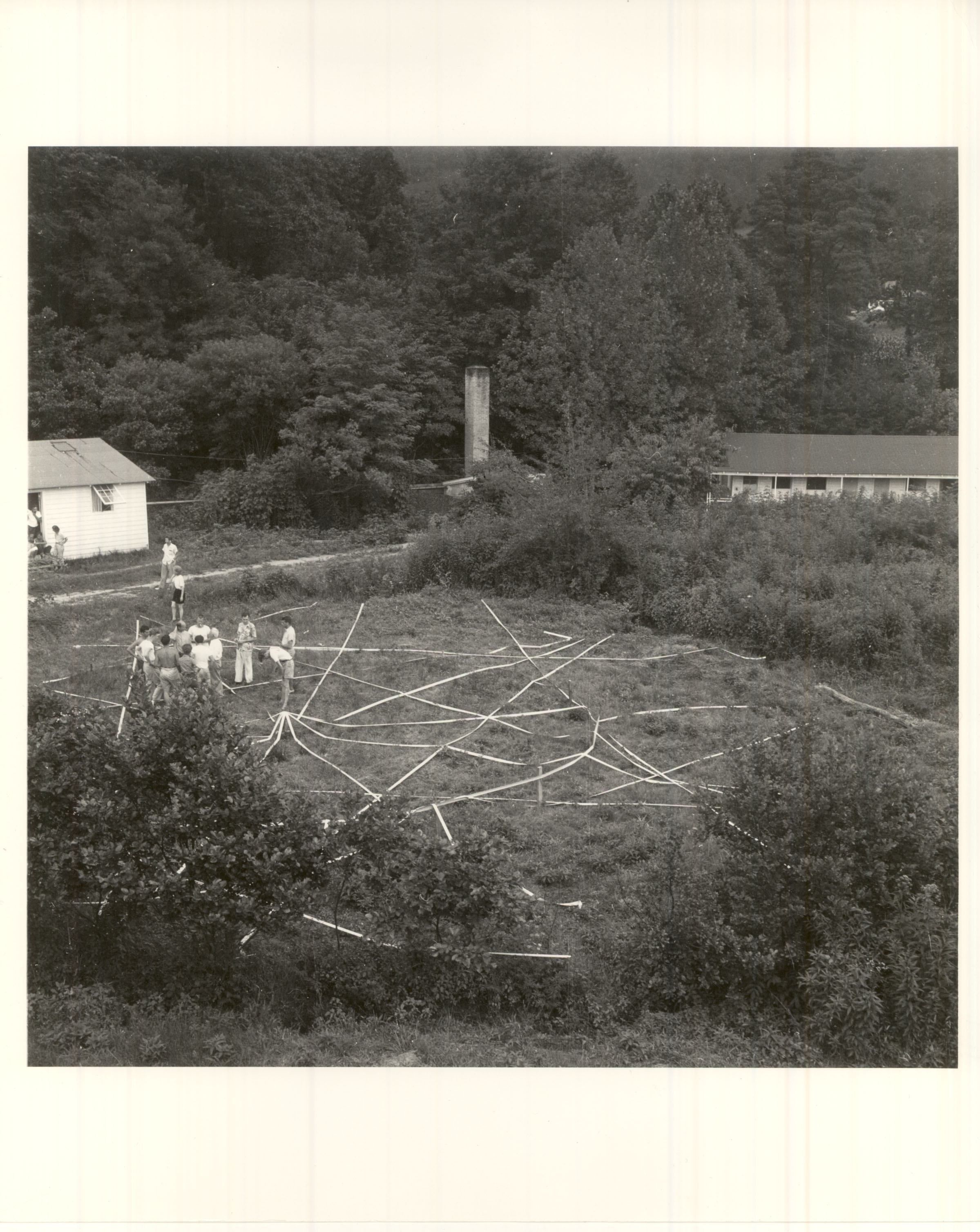 From the Black Mountain College Research Project Papers, Visual Materials, North Carolina State Archives, Raleigh, NC.